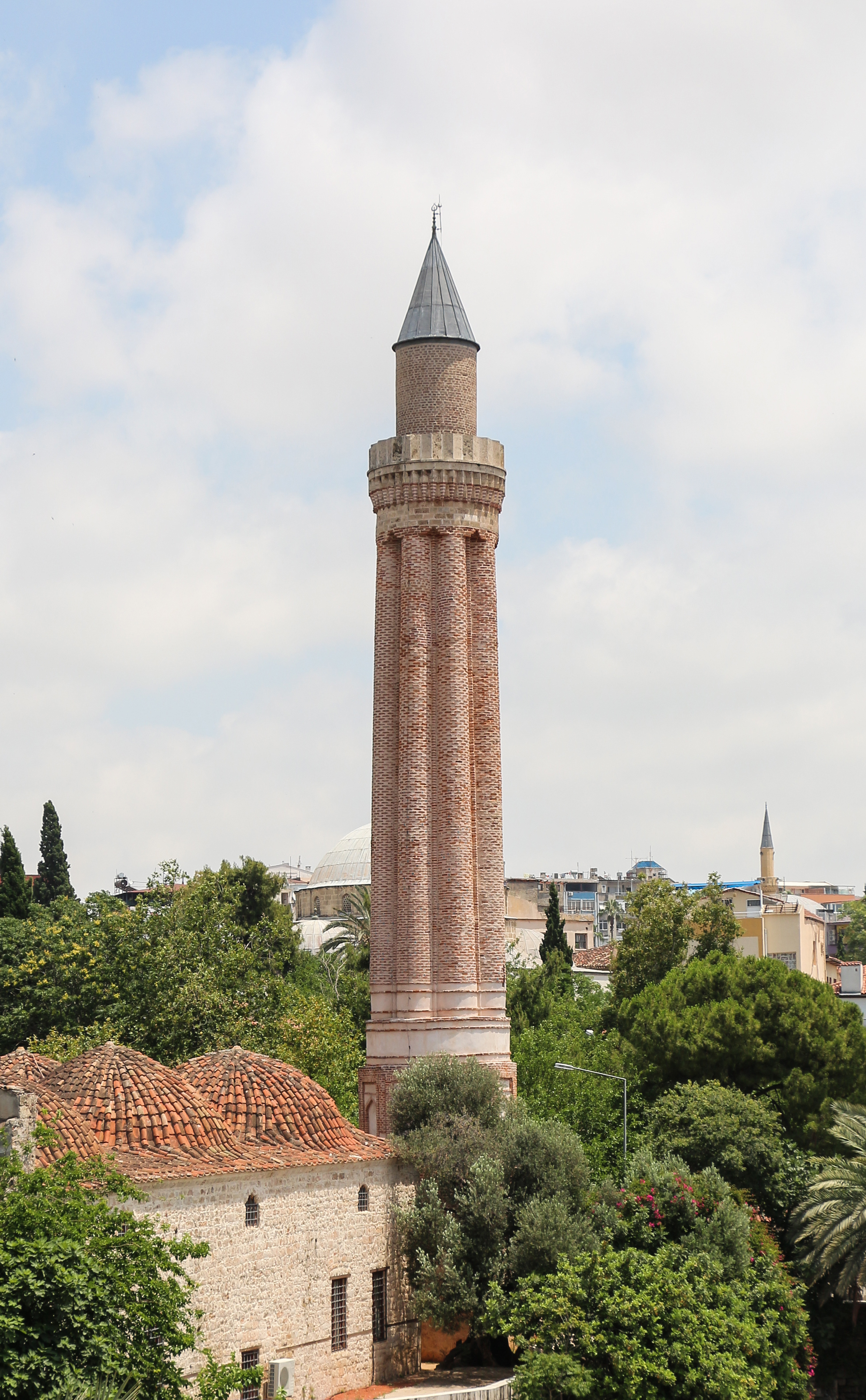 Yivli Minare Mosque ("Fluted Minaret" Mosque), Antalya, Turkey